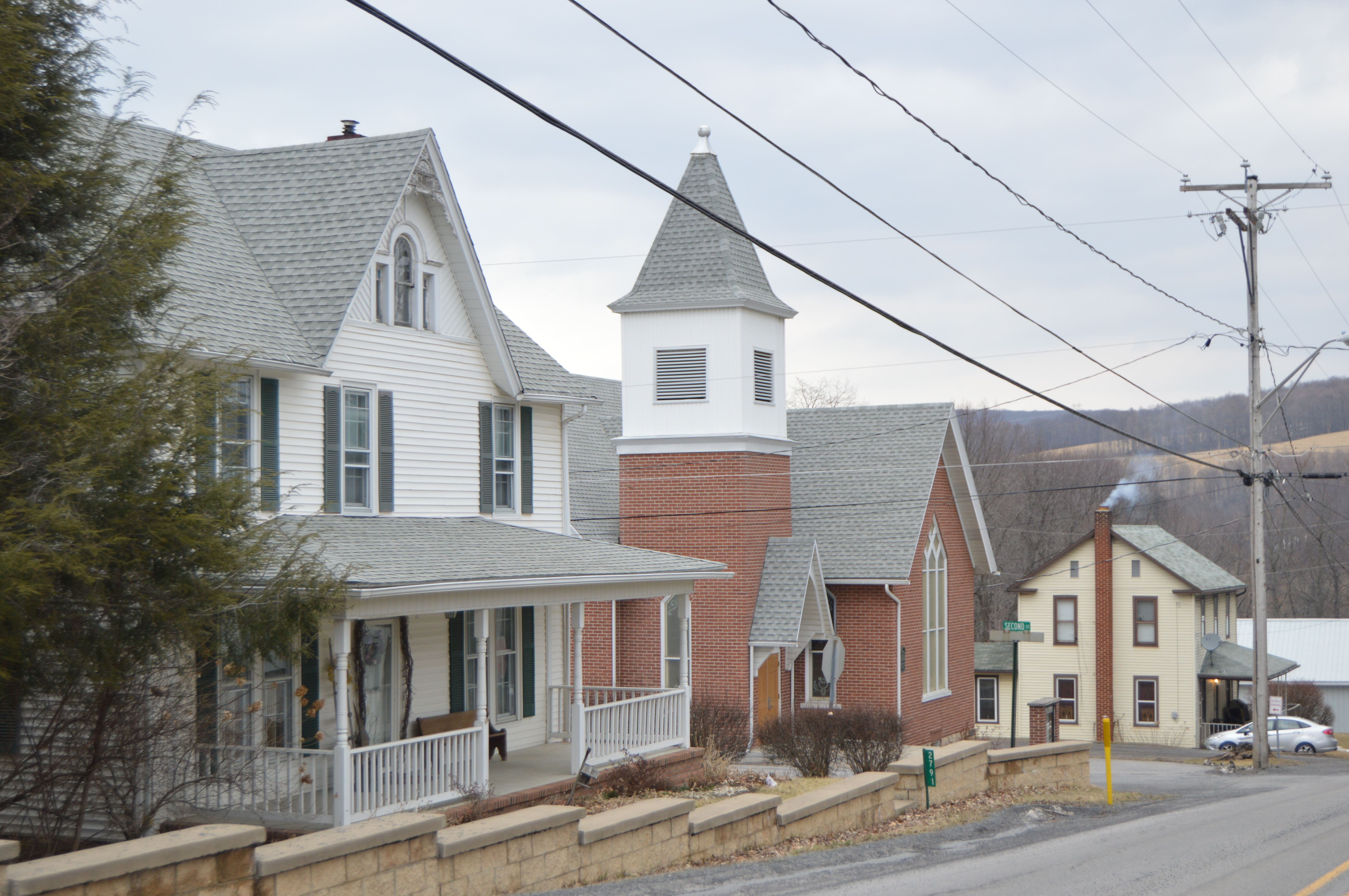 Houses and the Methodist church located on the northern side of Washington Street at the Second Street intersection in Dudley, Pennsylvania, United States.